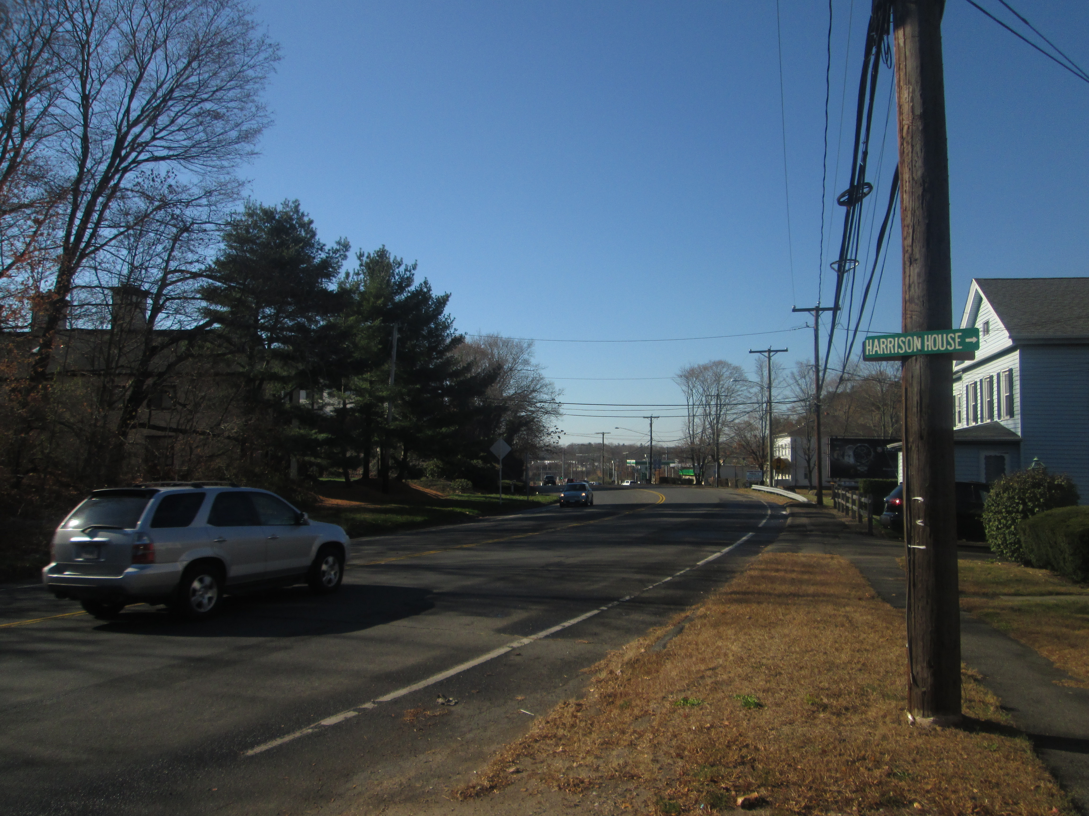 Connecticut Route 146 near Swain-Harrison Hosue in Branford, Connecticut.